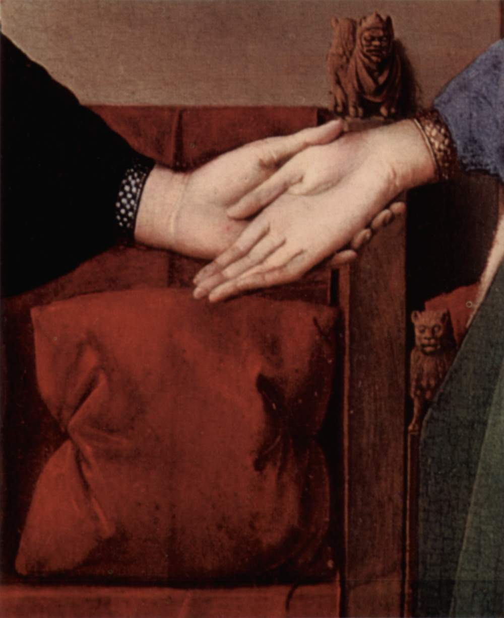 Crop of the painting The Arnolfini Portrait Artist Jan van Eyck (circa 1390–1441) Alternative namesJean van Eyck, Johannes van EyckDescriptionFlemish painter, draughtsman and manuscript illuminatorDate of birth/deathcirca 1390before 9 June 1441Location of birth/deathMaaseikBrugesWork locationThe Hague (1422), Bruges (1425), Lille (1425–1428), Bruges (1431–1441)Authority control : Q102272 VIAF: 54156267 ISNI: 0000 0001 2101 4186 ULAN: 500116209 LCCN: n50048855 NLA: 35072913 WorldCat Title